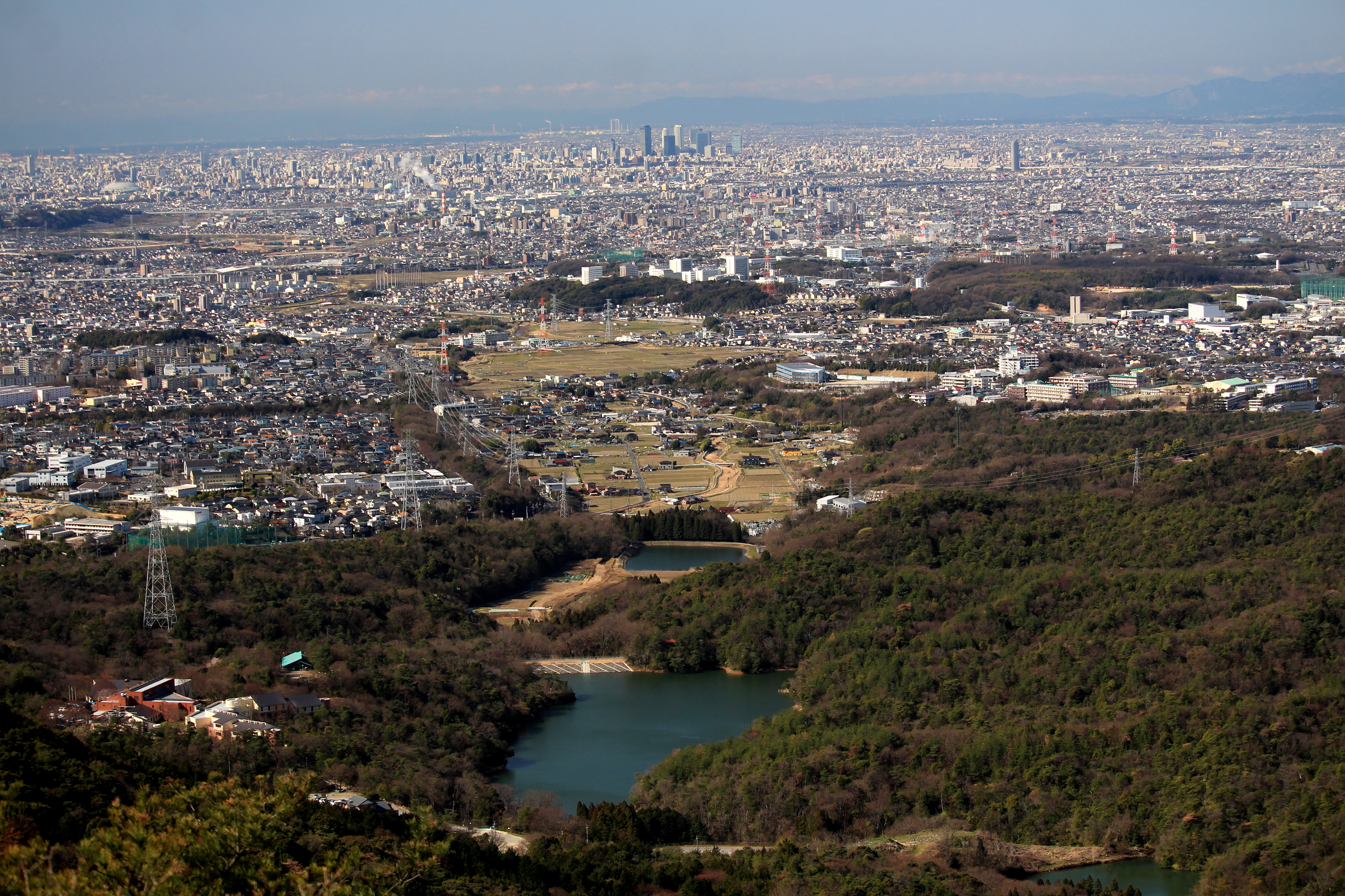 Nobi Plain seen from Mount Miroku in Japan.